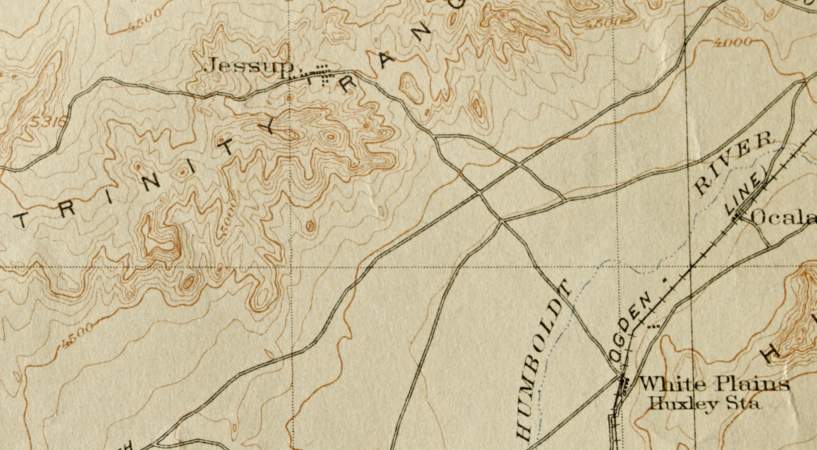 Detail from 1910 map of Jessup, north of Fallon